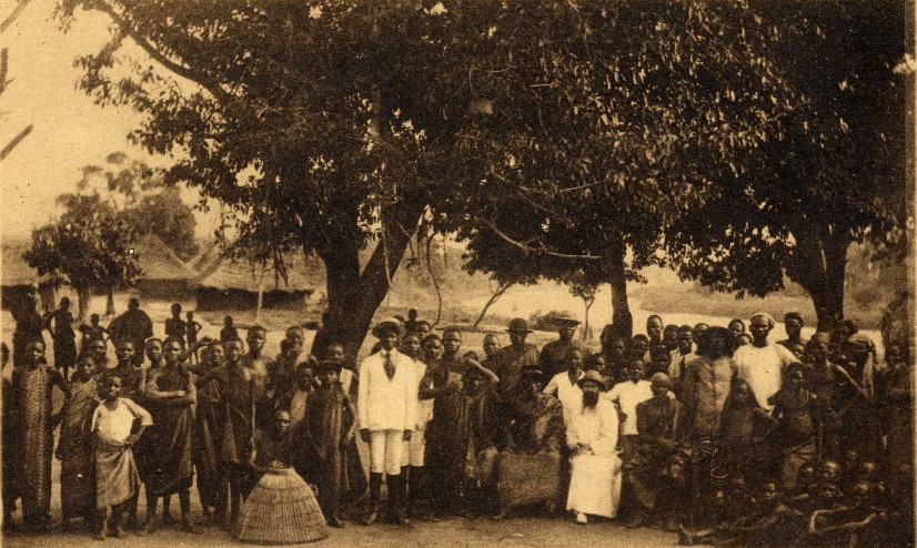 Missionary father poses with the men of a village, Zagnanado, Benin, ca. 1900-1930 4. DAHOMEY - Zagnanado - En excursion a Sagon-sur-Oueme." ("On excursion to Sagon-on-Oueme.") A missionary father and four other Dahomey young men dressed in white suits pose in a village with a large group of men and boys, most of whom are dressed in dark colors. Three of the men from the village sit with the missionary father. In the background houses of the village are visible. Postcard issued by "Missions Africaines, 150, Cours Gambetta, Lyon."; The back of the postcard is blank and contains information about the printer: "Phototypie Mce Lescuyer, 16, r. des Remparts-d'Ainay, Lyon.